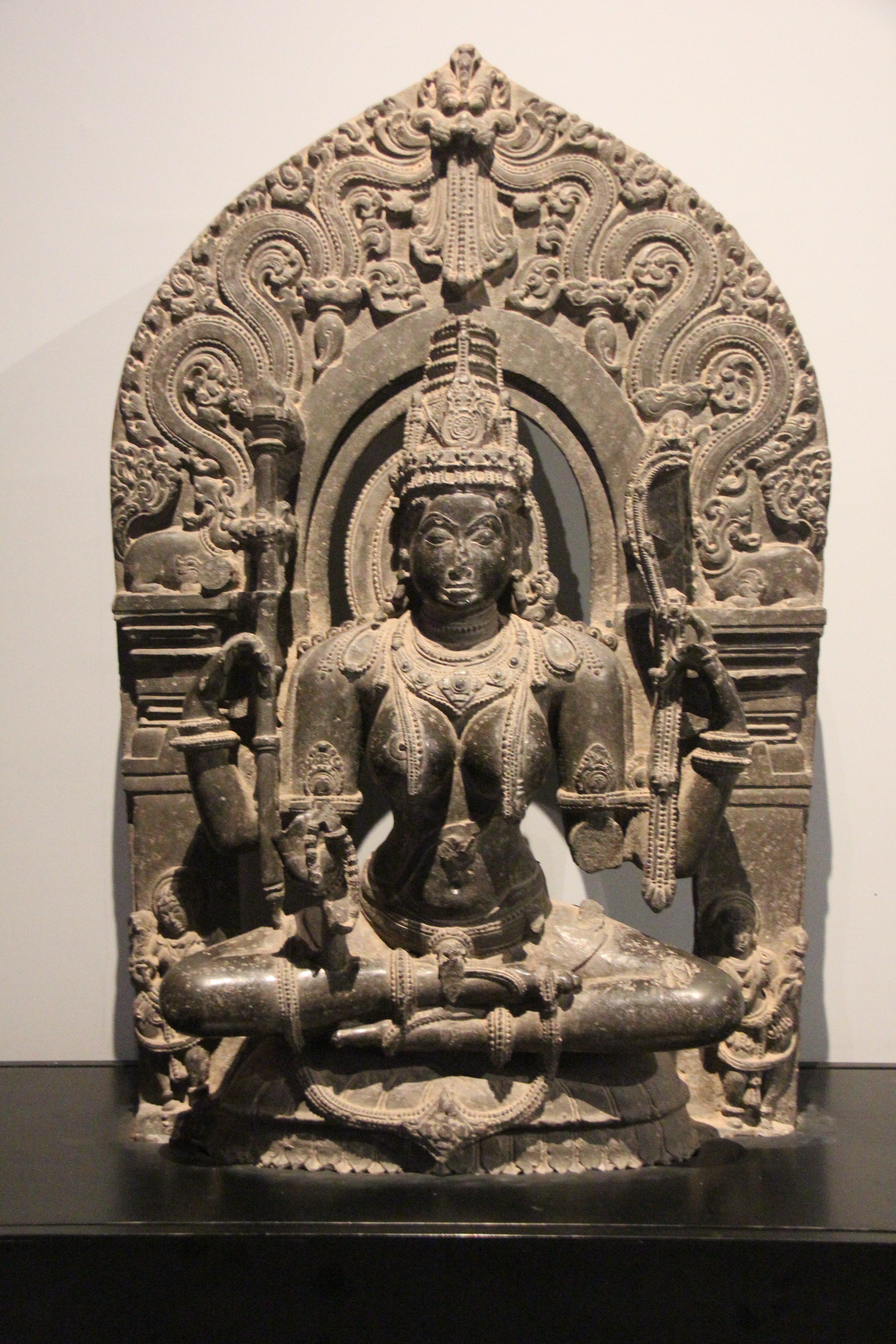 Saraswati idol made of black stone from late Chalukya dynasty period (12th century CE). Idol on display in The Prince of Wales Museum, Mumbai